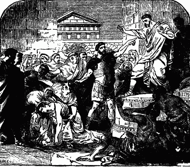 Death of Virginia (see Ab urbe condita)